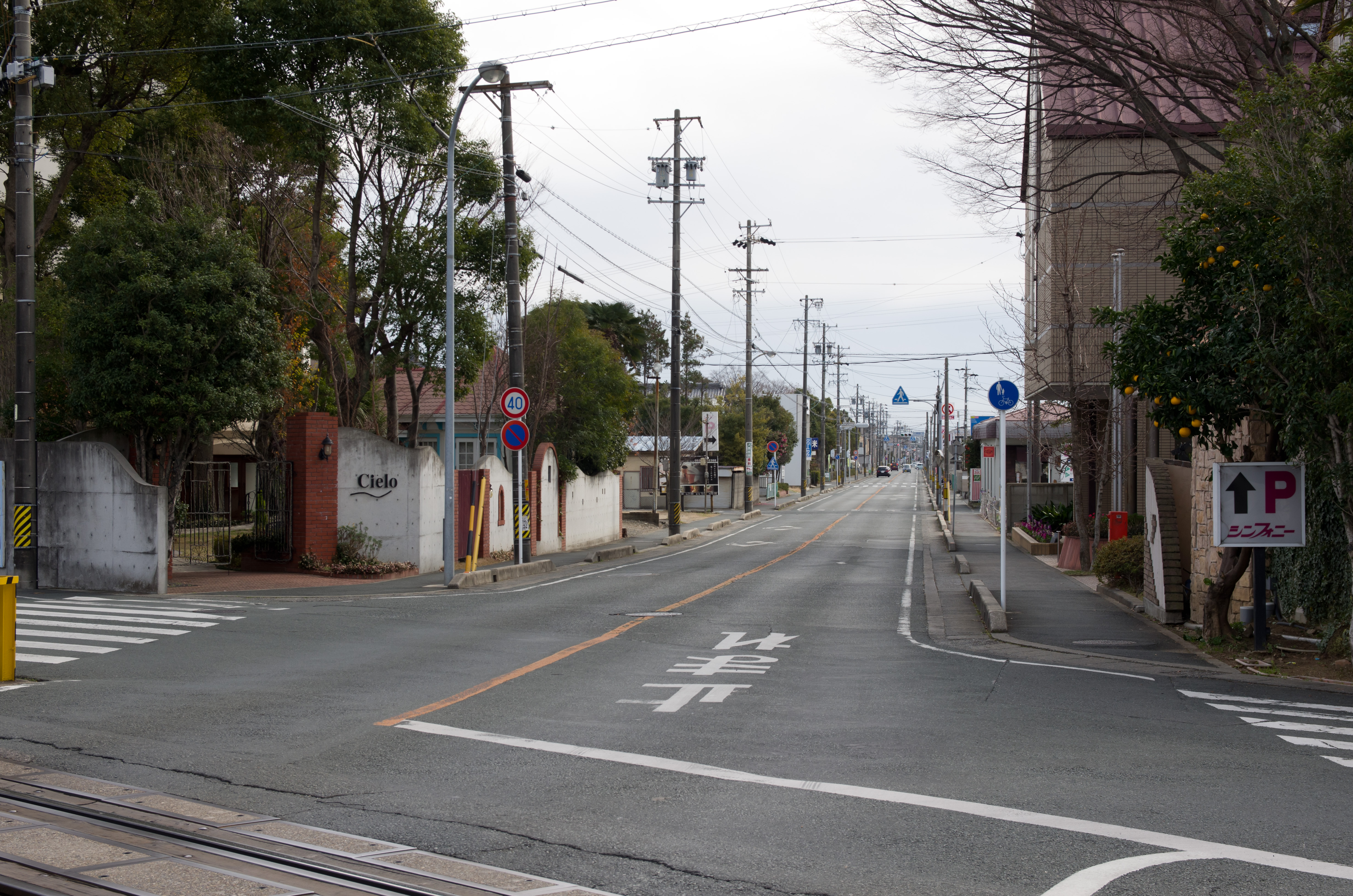 Ushikubo Eki-dori Ave. in Toyokawa, Aichi, Japan (Taken from railroad crossing of Meitetsu Toyokawa Line at Ushikubo Eki-dori 5-chome to the south)